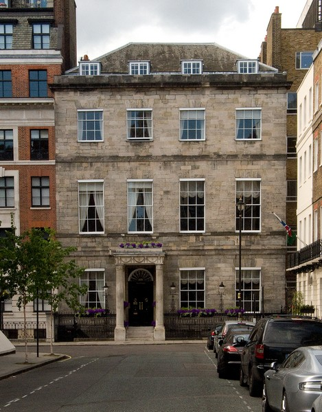 Chandos House, Queen Anne Street, London W1. Grade I listed former town house, built 1769-1761 to the designs of architect Robert Adam.